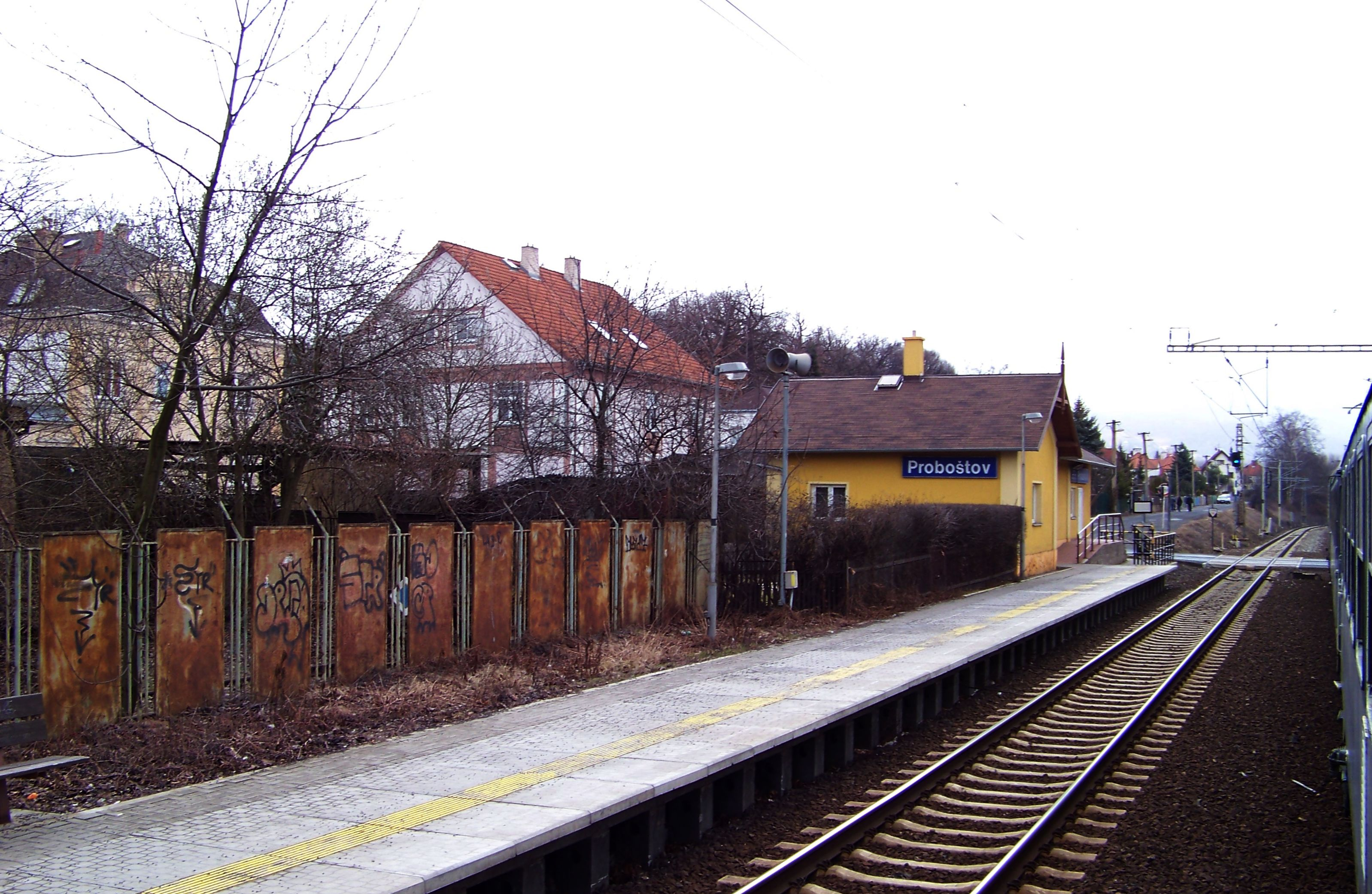 Teplice-Trnovany a Proboštov, Teplice District, Ústí nad Labem Region, the Czech Republic. Train stop Proboštov. - OpenStreetMap(Info)